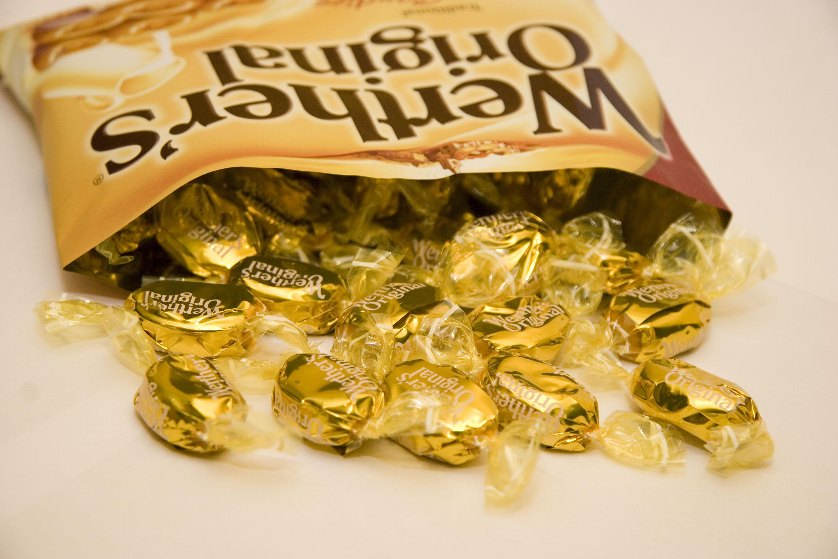 An Open Bag of Werther's Originals